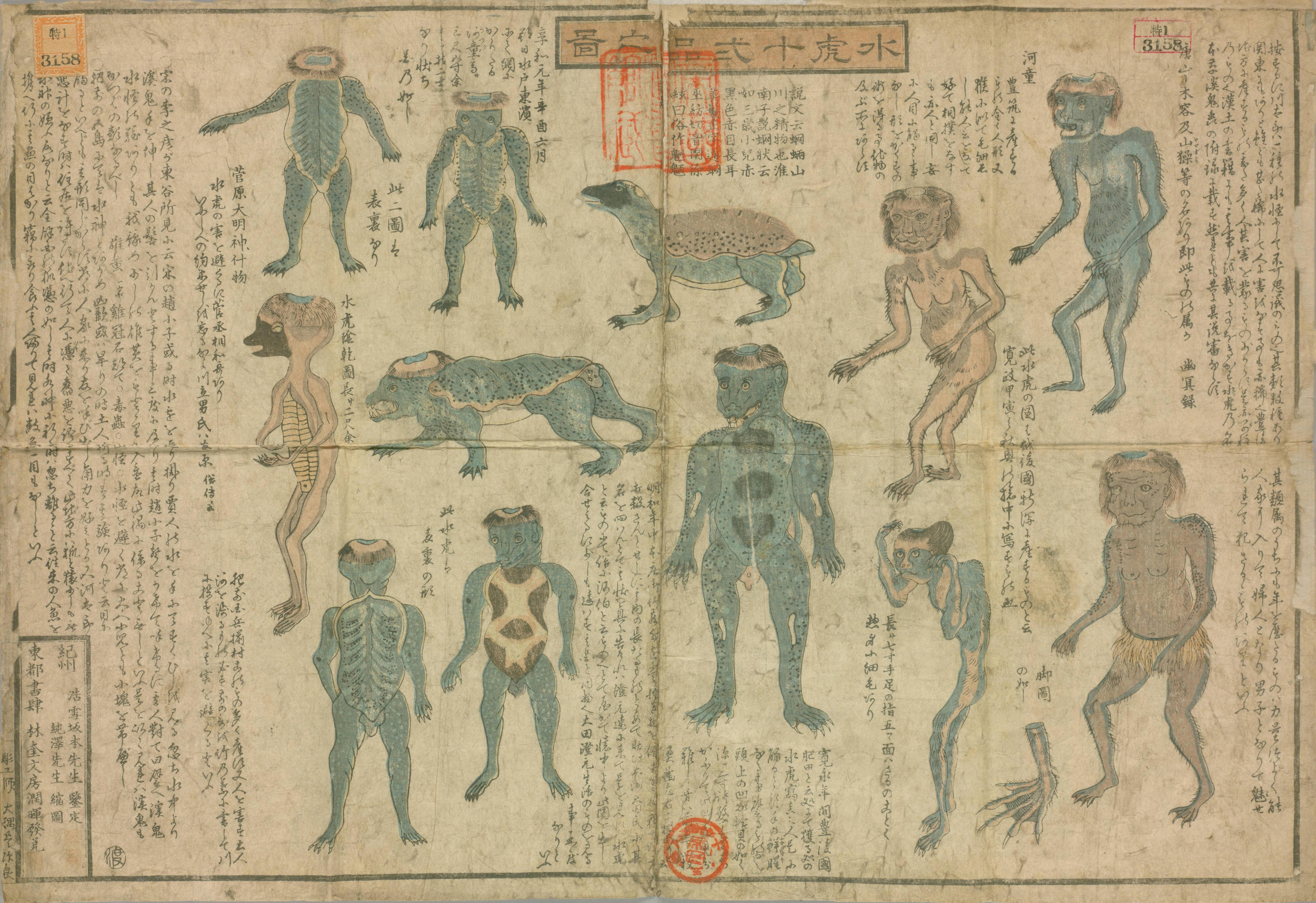 Kappa drawings from mid-19th century Suiko juni-hin no zu 水虎十二品之図 (Illustrated Guide to 12 Types of Kappa)